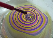 An example of water marble nail method free-dropping, (spiral/lines).